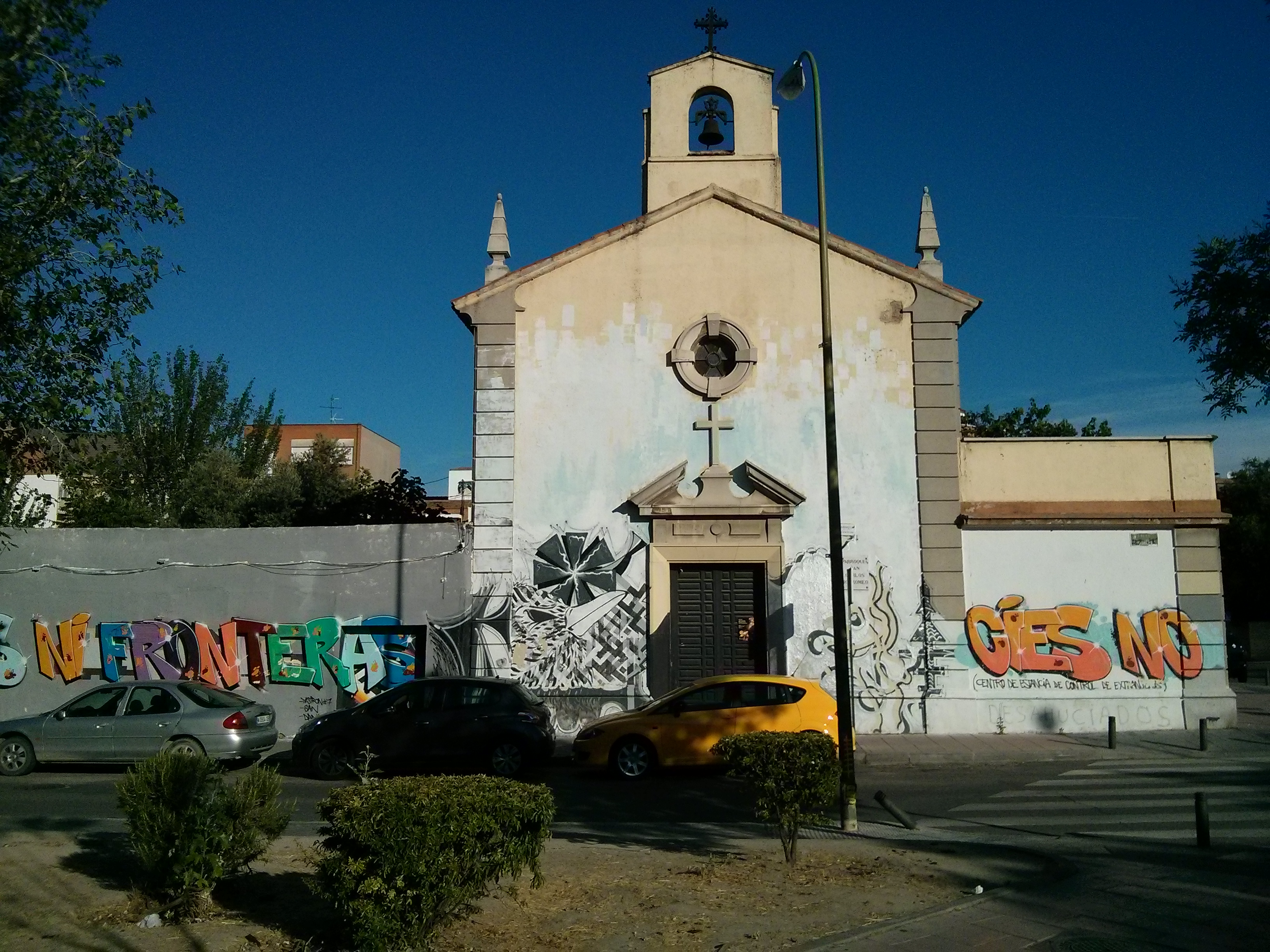 Photograph of San Carlos Borromeo Church in the district of "Entrevías" in the city of Madrid in Spain. Historic parish for being leftist and social branch of Christianity called Church of base and ideologically close to Liberation Theology. It has been very important in the 80s helping combat drug addiction. And now for his opposition to the Church today is conservatively cut and guidance to the right.